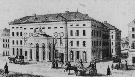 The German Theater of Pest around the 1830's